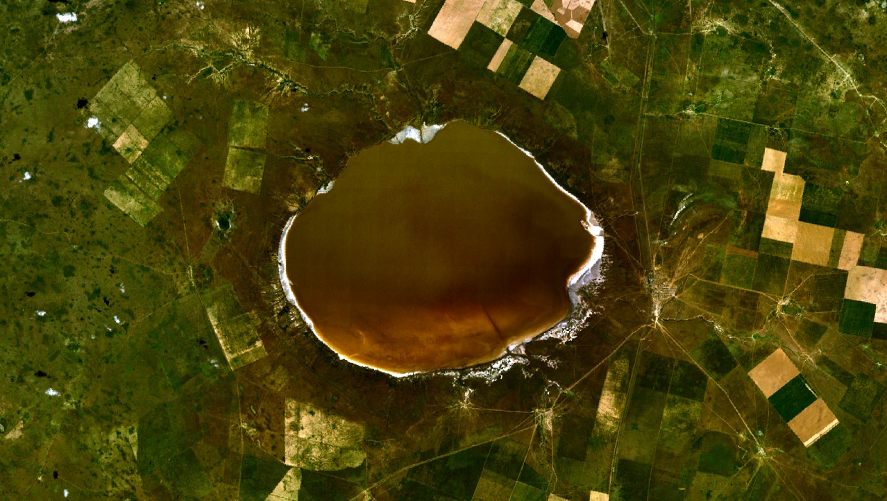 Lake Elton, Volgograd, as seen from space.